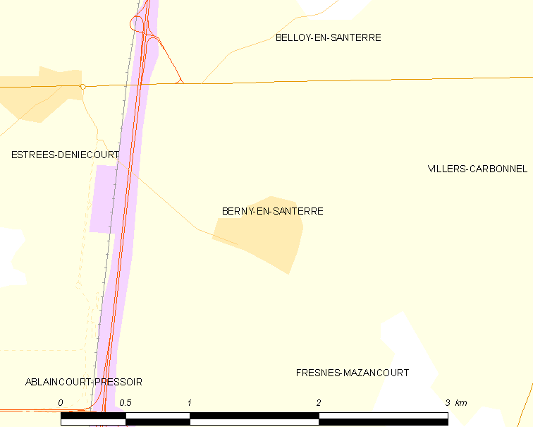 Map of French municipality Berny-en-Santerre